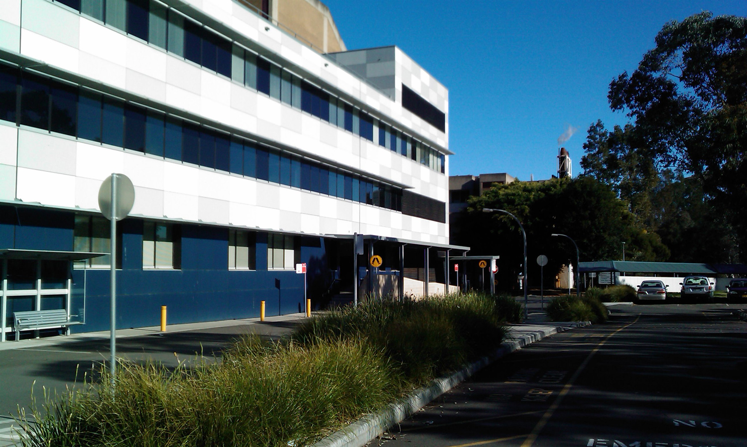 Outside the E Block at Westmead Hospital